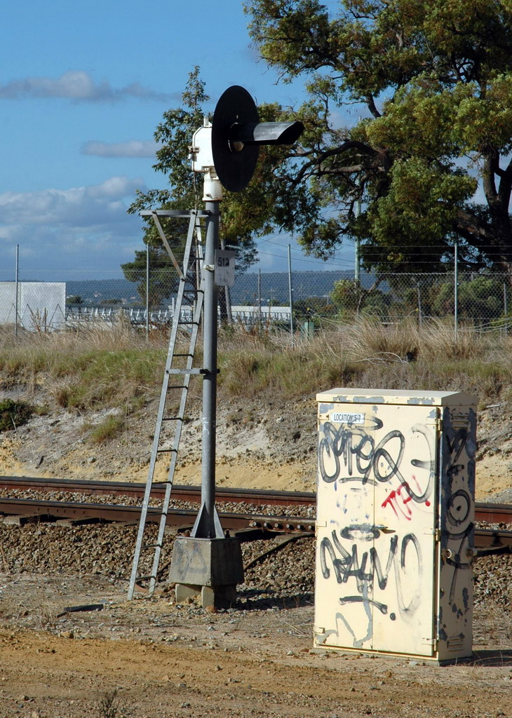 Railway signal 512 at Forrestfield, Western Australia.